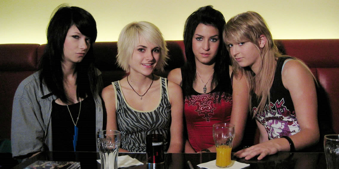 Fräulein Wunder in Hamburg, Germany